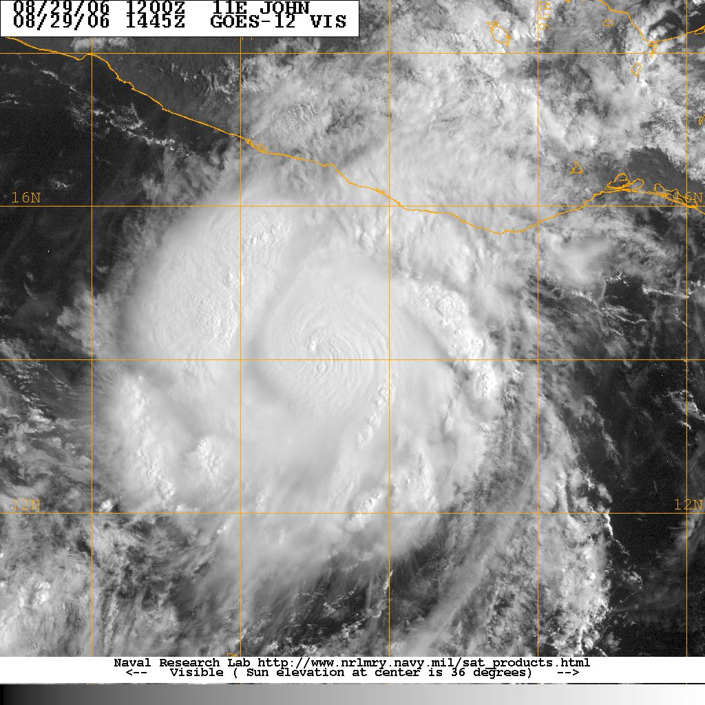 The Hurricane John at August 29th, 2006, 1445h.